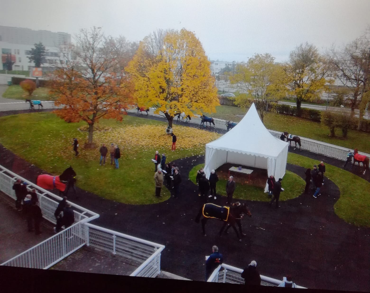 Rond de présentation de l'hippodrome Nancy-Brabois